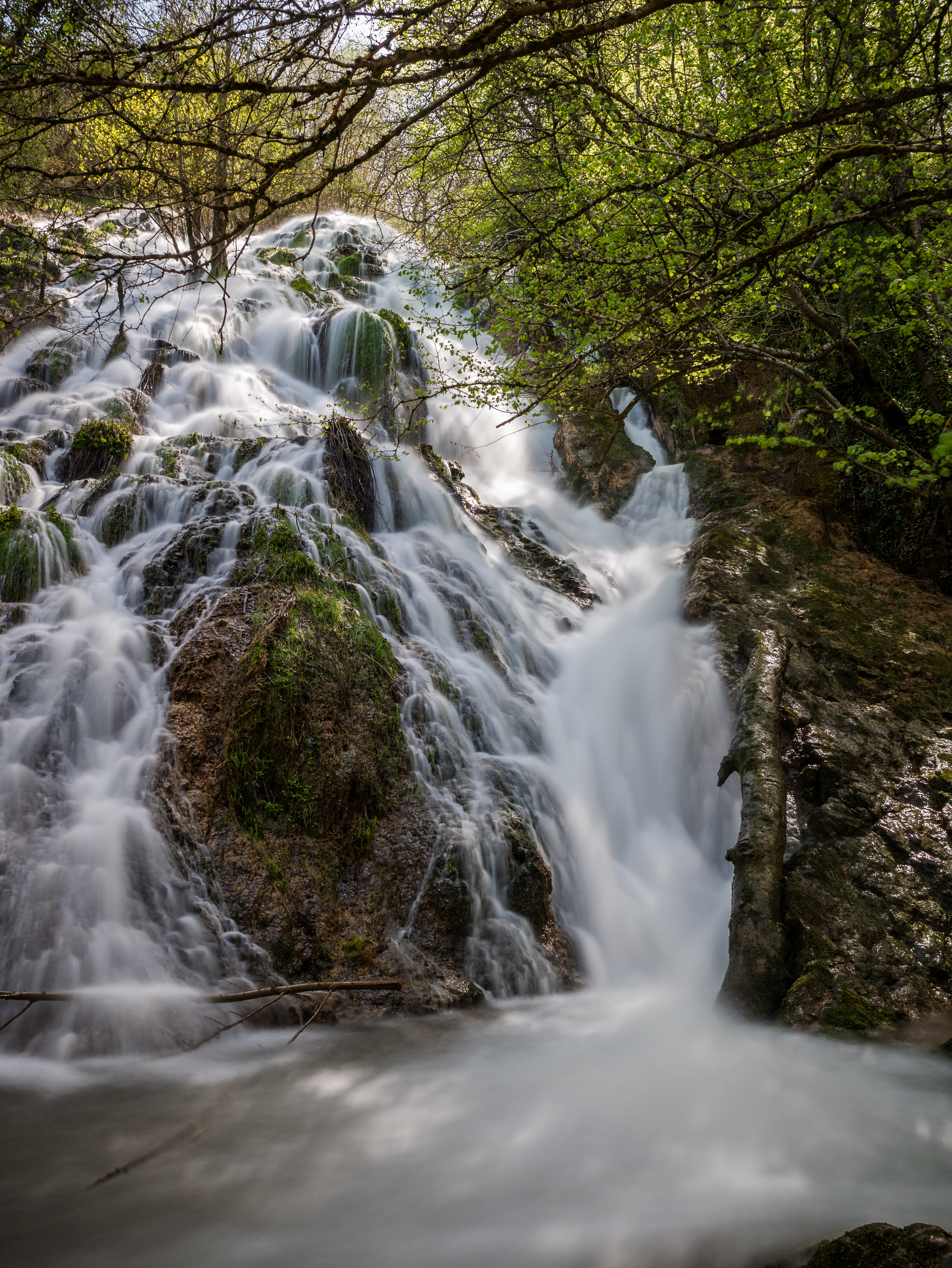 Long exposure shot of the Las Herrerias Cascade on the Ruta del Agua Trail ("Water Trail"). Berganzo, Álava, Basque Country, Spain